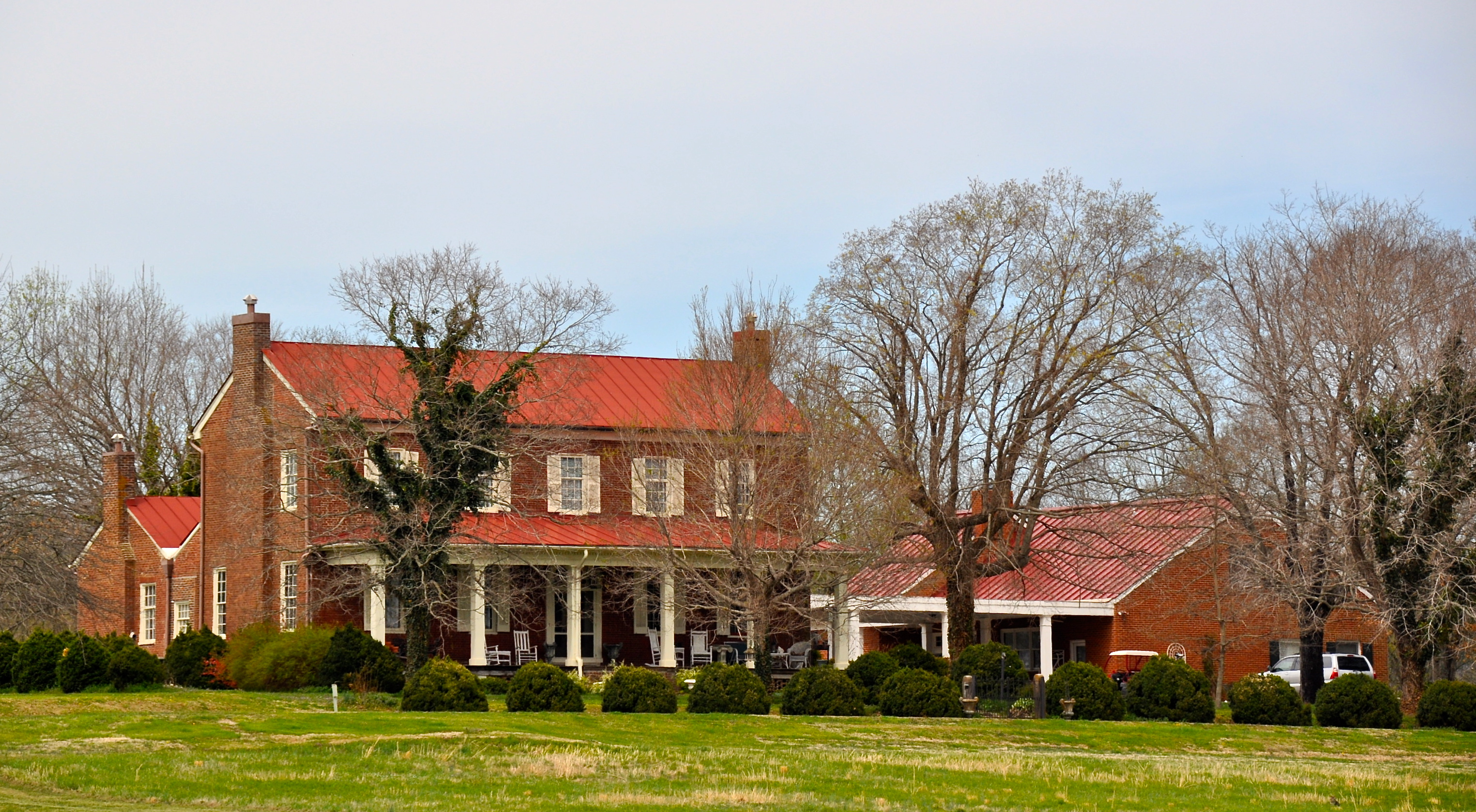 Located near Cross Bridges, Maury County, Tennessee.